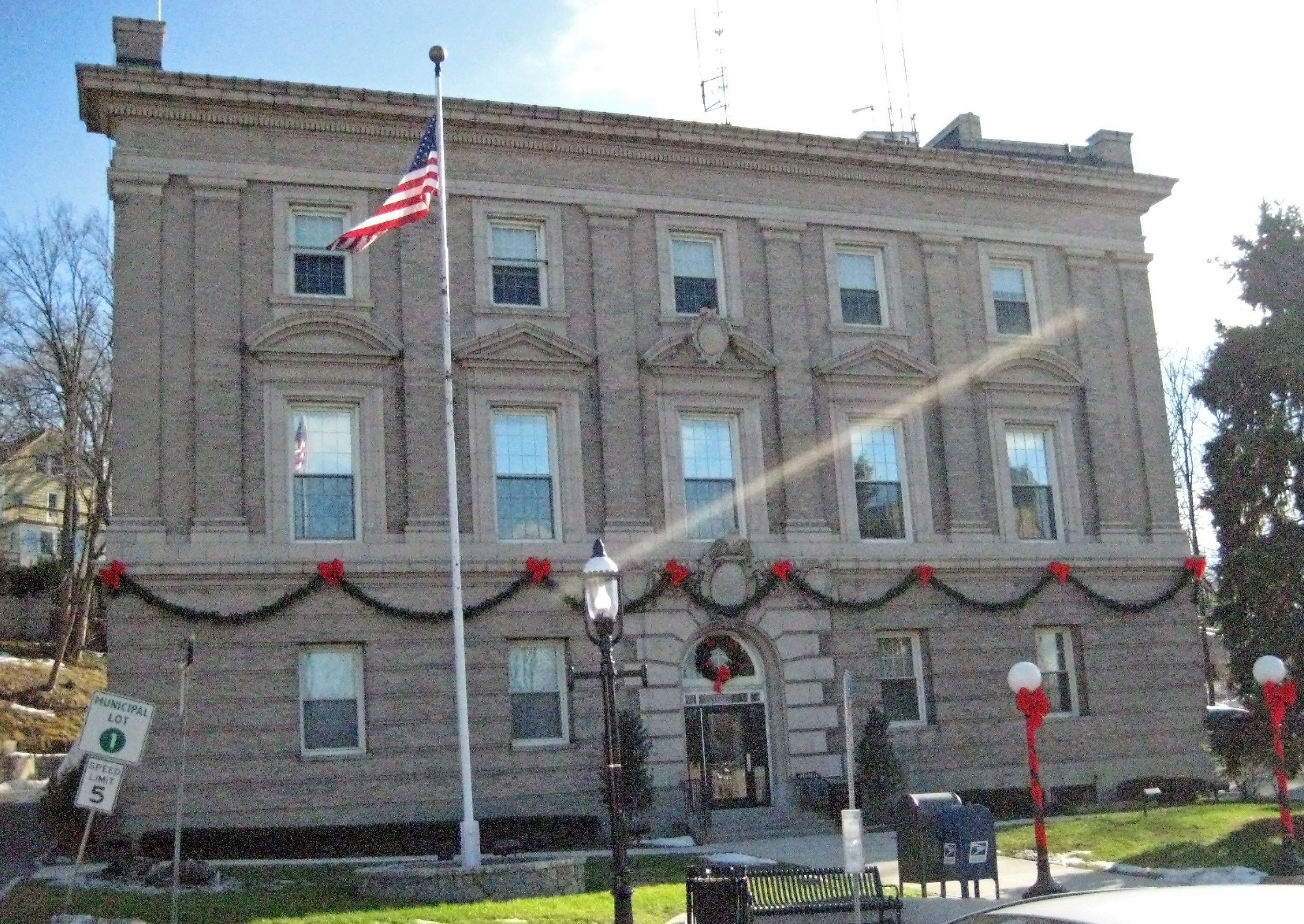 Village hall, Ossining, NY, USA, a contributing property to the Downtown Ossining Historic District